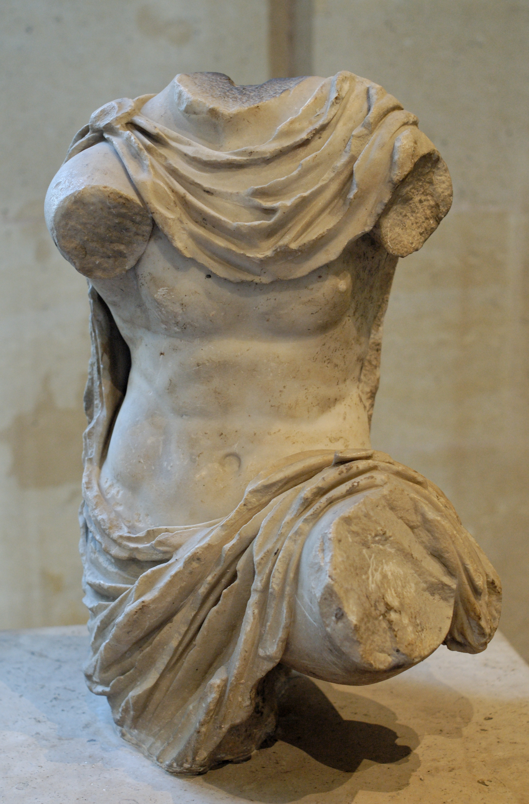 Fragmentary statue of a man clad in a chlamys (cloak). The head (now lost) wore a diadem, symbol of royalty, of which a part is extant on the right shoulder. May reproduce a portrait of Alexander the Great by Euphranor, which Pliny the Elder (24, 78) mentions as the creator of a portrait of Alexander and Philip in a chariot. Marble, Roman copy of the 1st–2nd century after a Hellenistic original. Found near Pezenas, southwest of France.